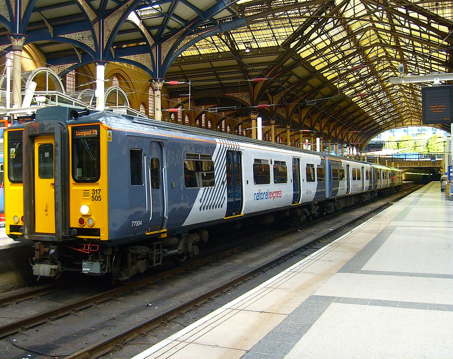 Recently reliveried national express East Anglia Class 317/5 EMU No. 317505 arrives at London Liverpool Street